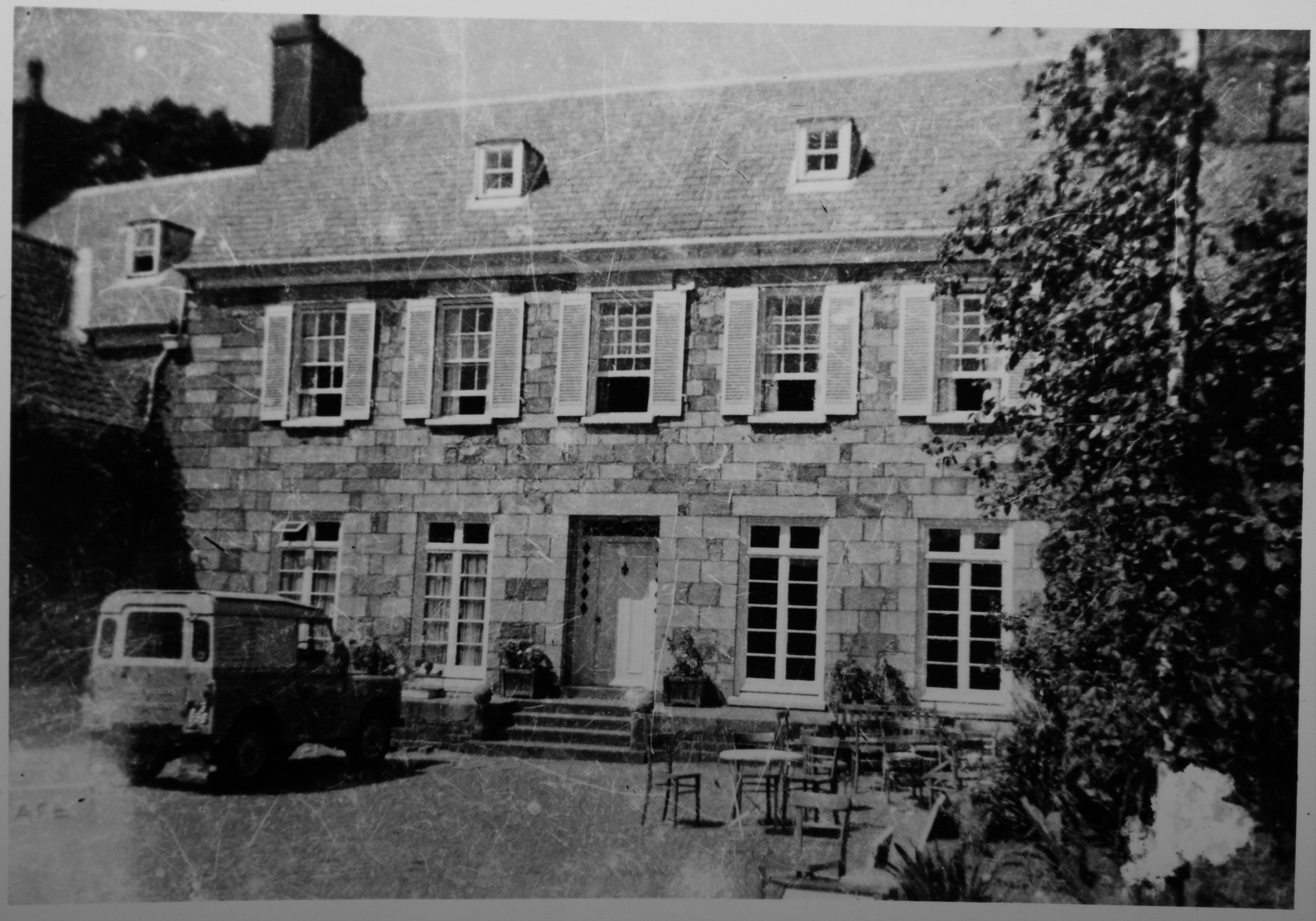 Les Augrès Manor, Jersey, home to the Durrell family and part of Durrell Wildlife Park. A Land Rover is parked in the yard. Original photo was marked year 1963.